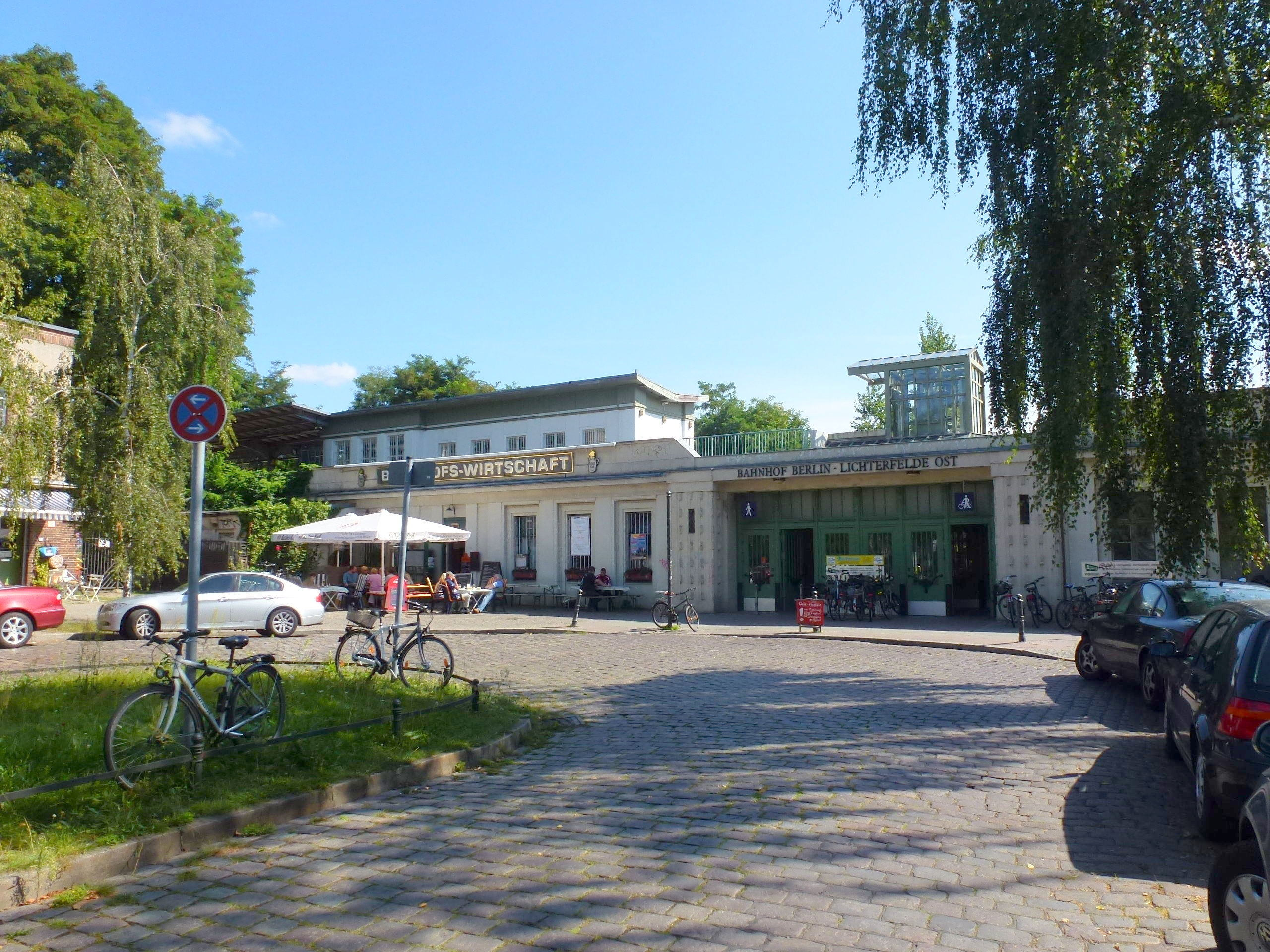 Berlin-Lichterfelde Jungfernstieg Bahnhof Lichterfelde Ost